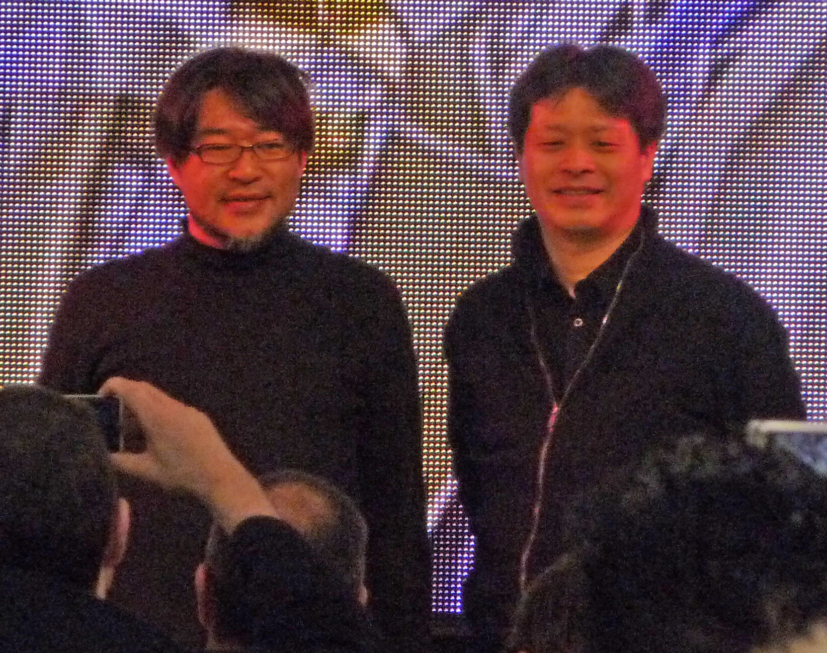 Isamu Kamikokuryo and Yoshinori Kitase at HMV's Final Fantasy XIII launch event in London, United Kingdom.